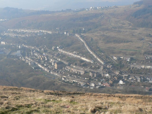 Tylorstown: view from above A splendid view down the Rhondda valley above Tylorstown.